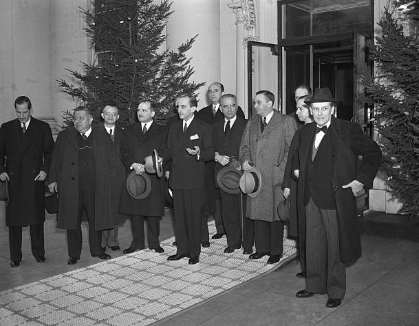 Manuel de Freyre, Peruvian Ambassador, with the Envoys of American Republics at White House